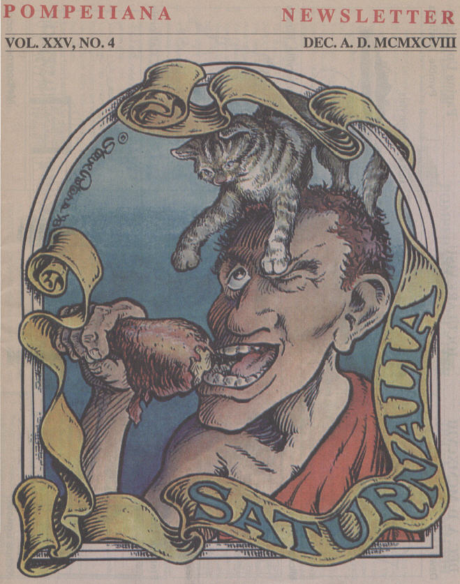 Front cover of The Pompeiiana Newsletter, Volume 25, Number 4.